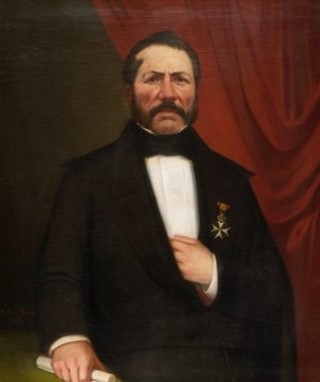 Portrait of Louis Wyrsch, also known as Borneo Louis, a Swiss politician and a military commander of the 19th century contributed to the Swiss Constitution in 1848. Paint by Georg Kaiser